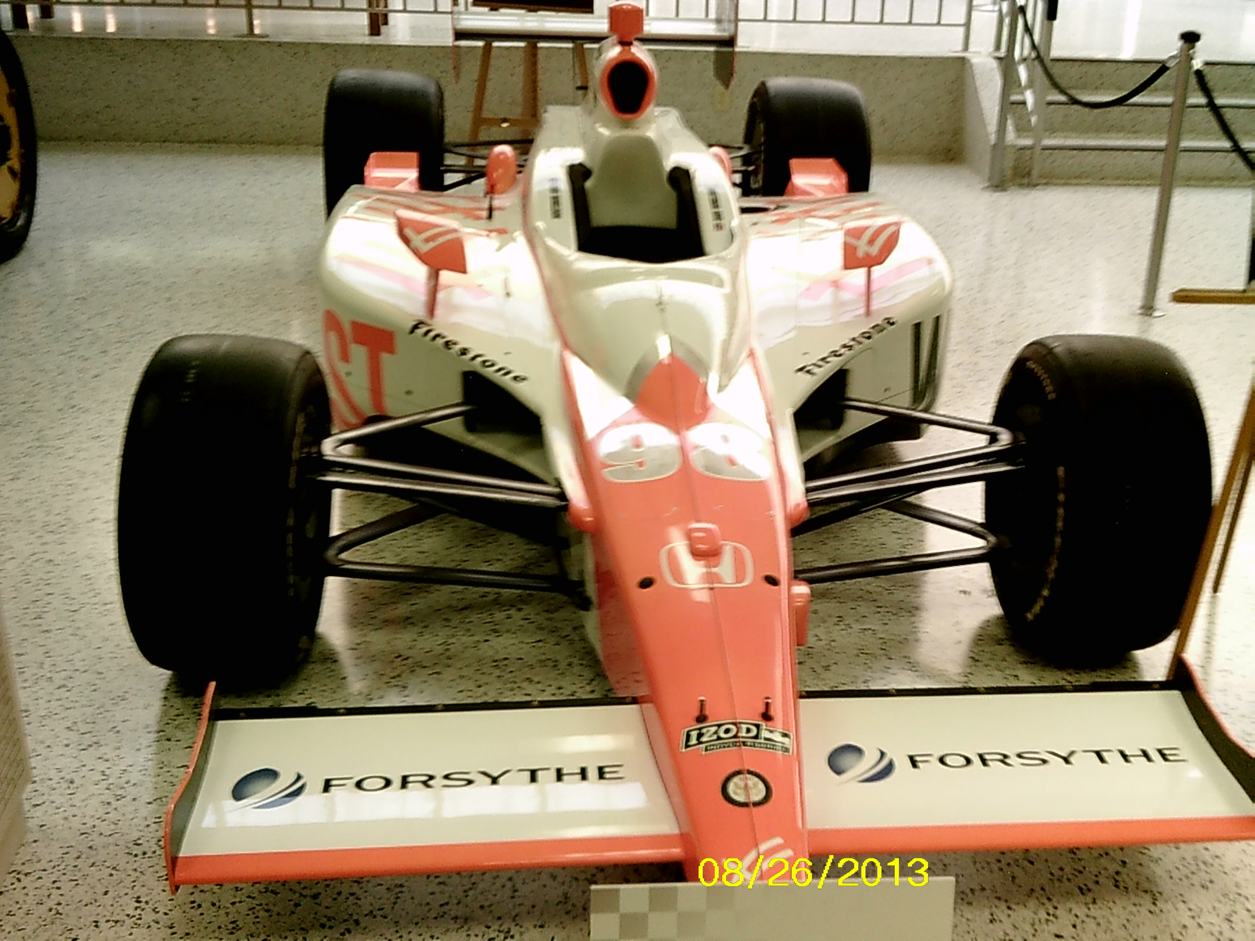 Picture of the 2011 Indianapolis 500 winner, as driven by Dan Wheldon.